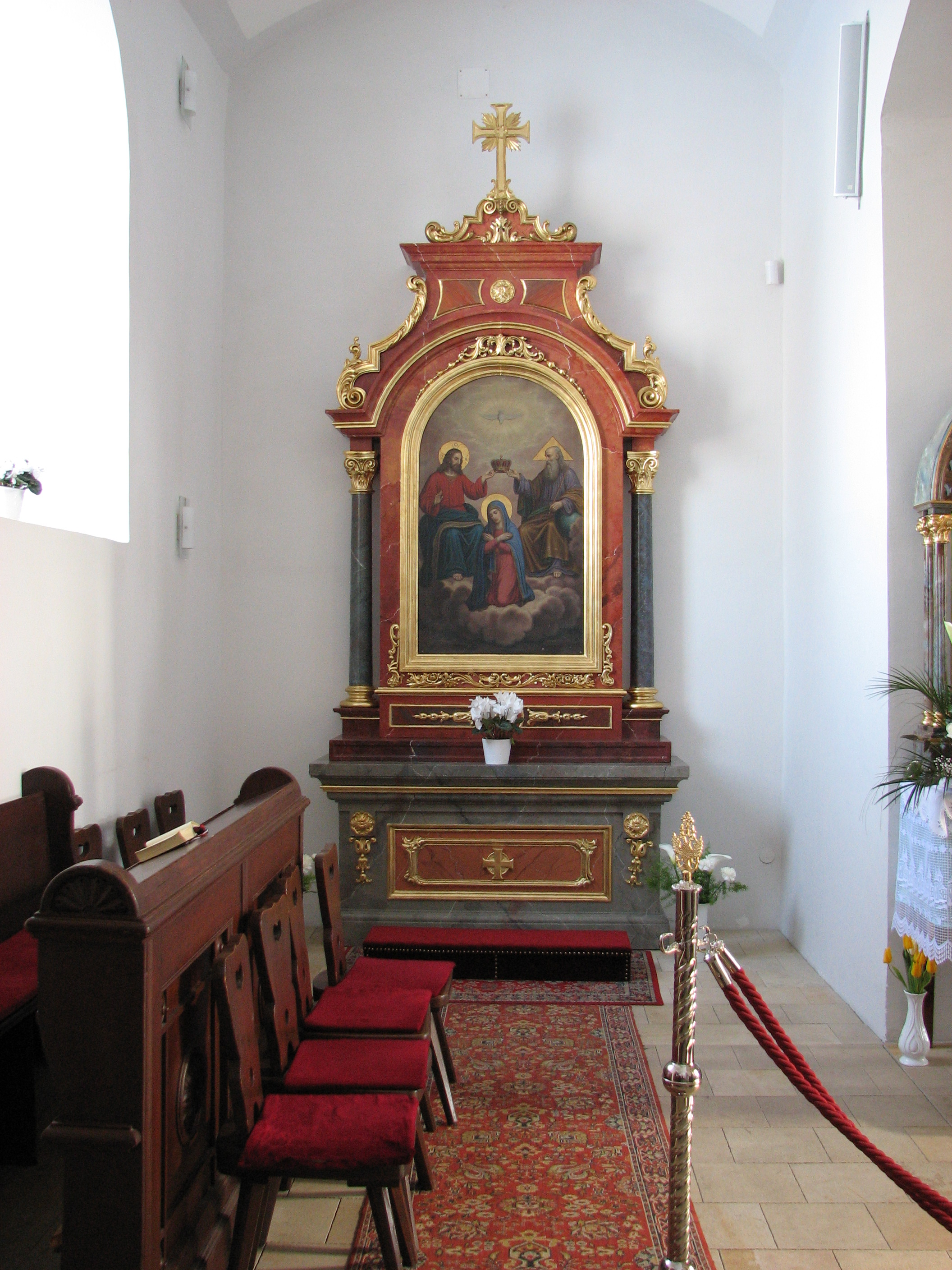 The Northern side nave of the Greek Catholic Cathedral of Hajdúdorog, Hungary. The nave is dedicated to the coronation of Mary. The Northern nave of the cathedral was dedicated to Pope Pius X who founded the Diocese of Hajdúdorog until the inner restoration of the church in 2006.